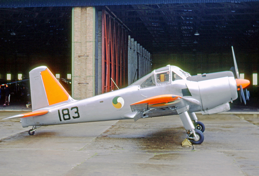 Percival P.56 Provost T.53 183 of the Irisg Air Corps at Baldonnel airfield Ireland in 1967